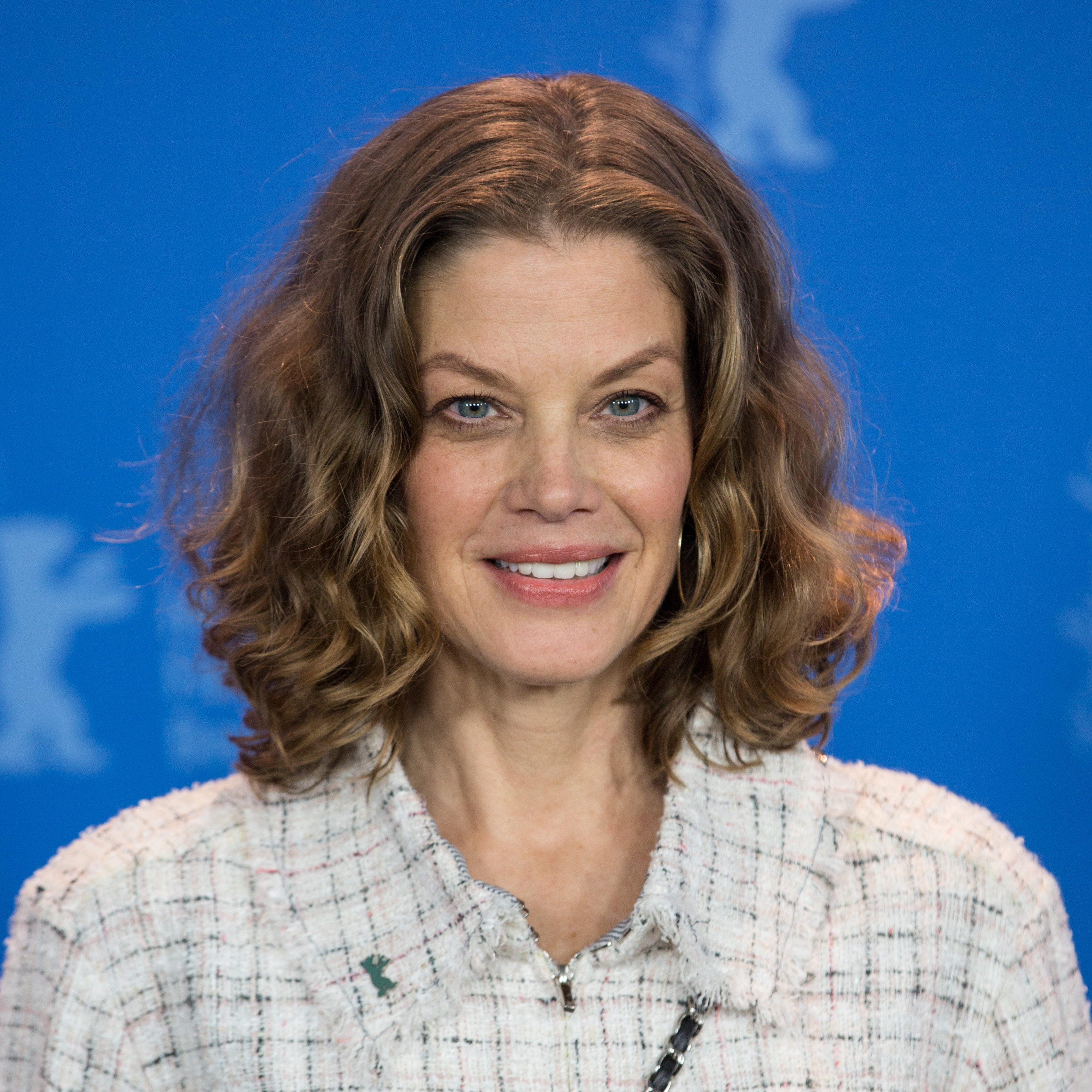 Actress Marie Bäumer at the Berlinale 2018